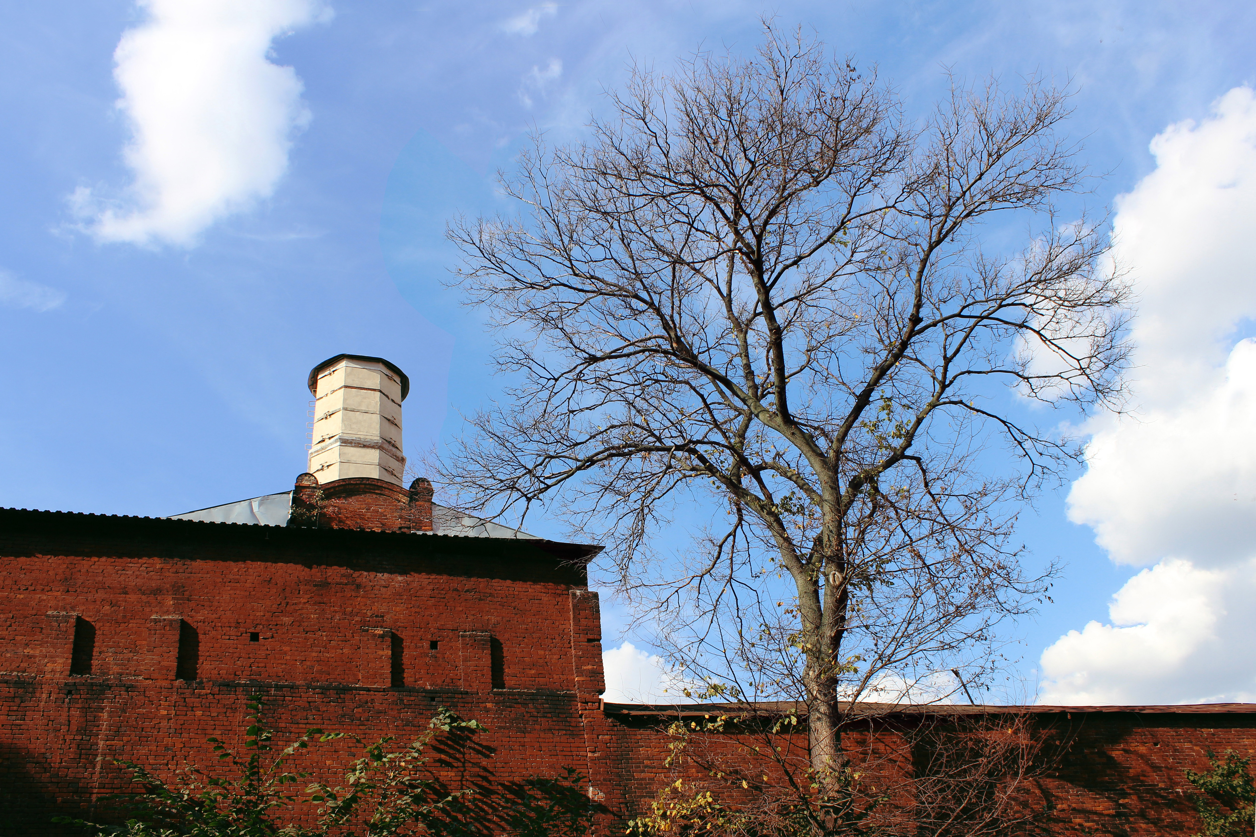 Khamovnichesky Brewery, 23 Leo Tolstoy street Moscow, view from the territory of the Leo Tolstoy museum